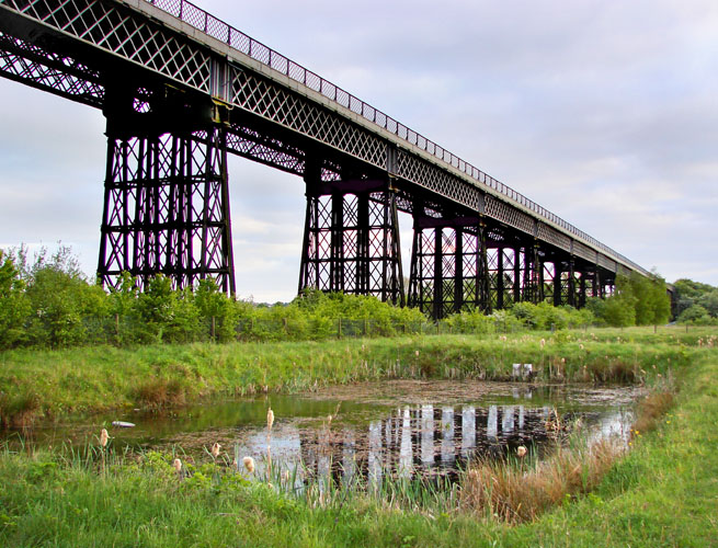 Bennerley Viaduct near Ilkeston, Derbyshire is one of only two surviving wrought iron railway viaducts in the United Kingdom.